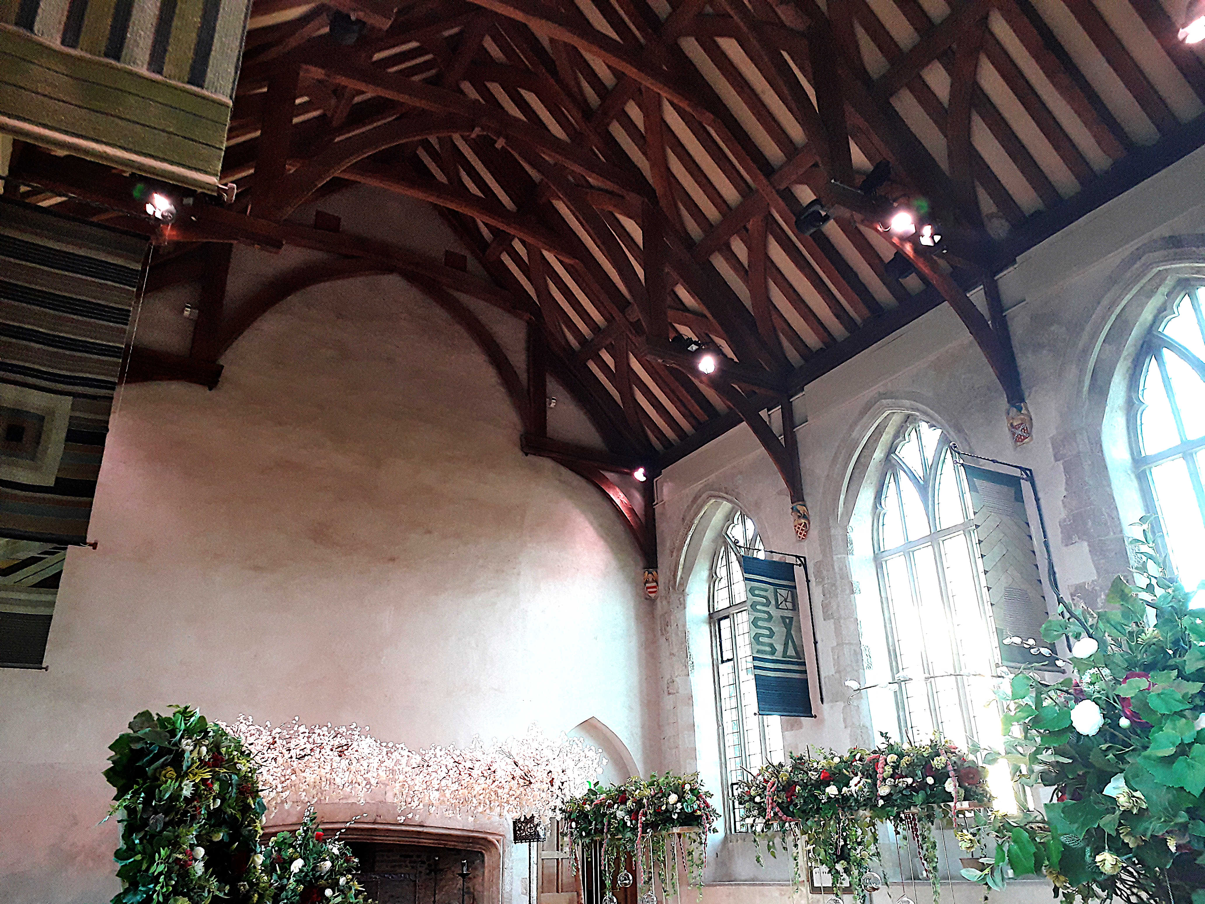 Dartington Hall, Devon, The Great Hall roof. On the corbels three shields with arms of (left to right): Martyn, Audley and Champernowne, all successive owners of the estate.